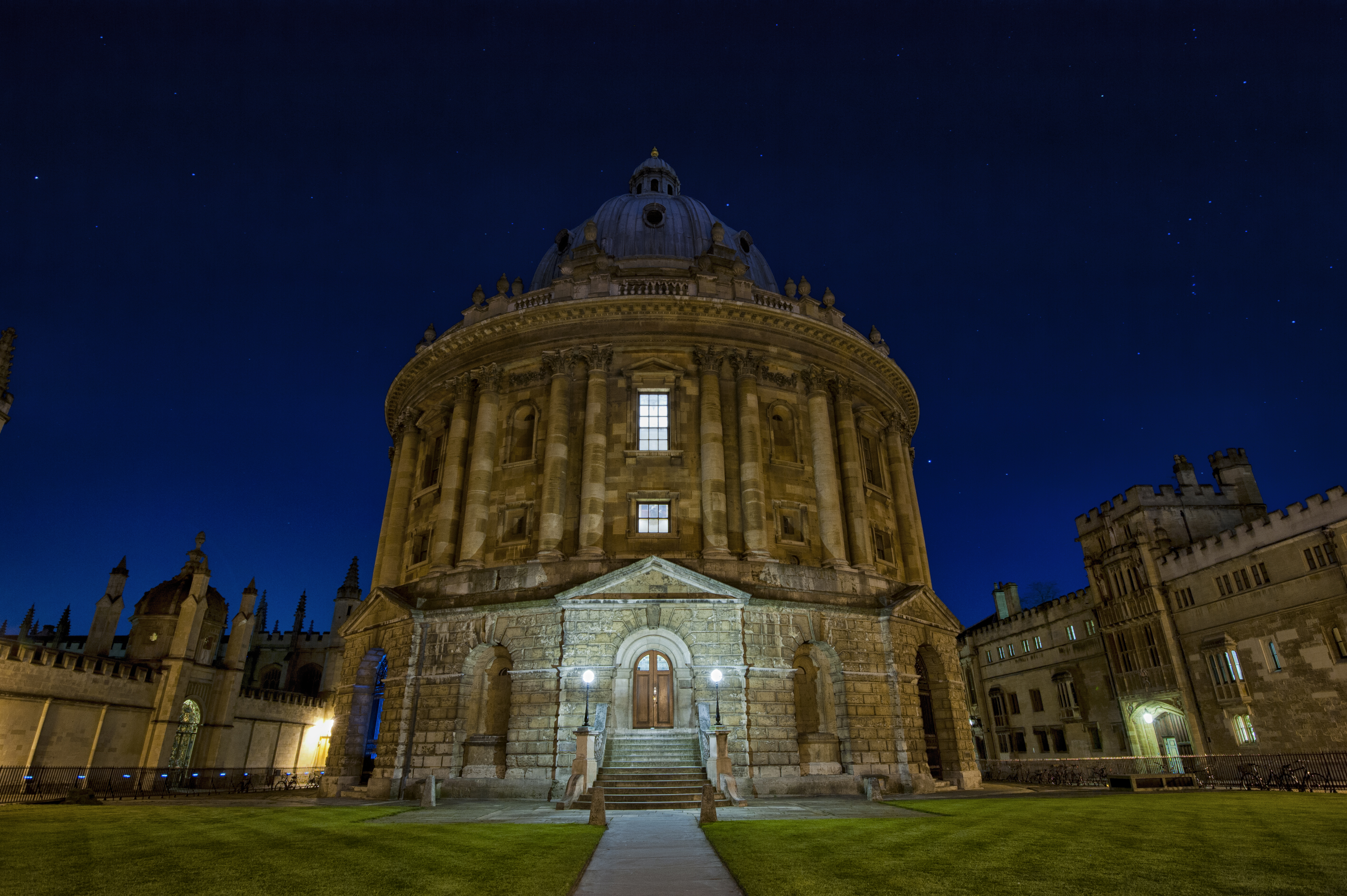 Radcliffe Camera at night, seen from north-northwest, with All Souls College on the left and Brasenose College on the right, in Radcliffe Square, Oxford, England